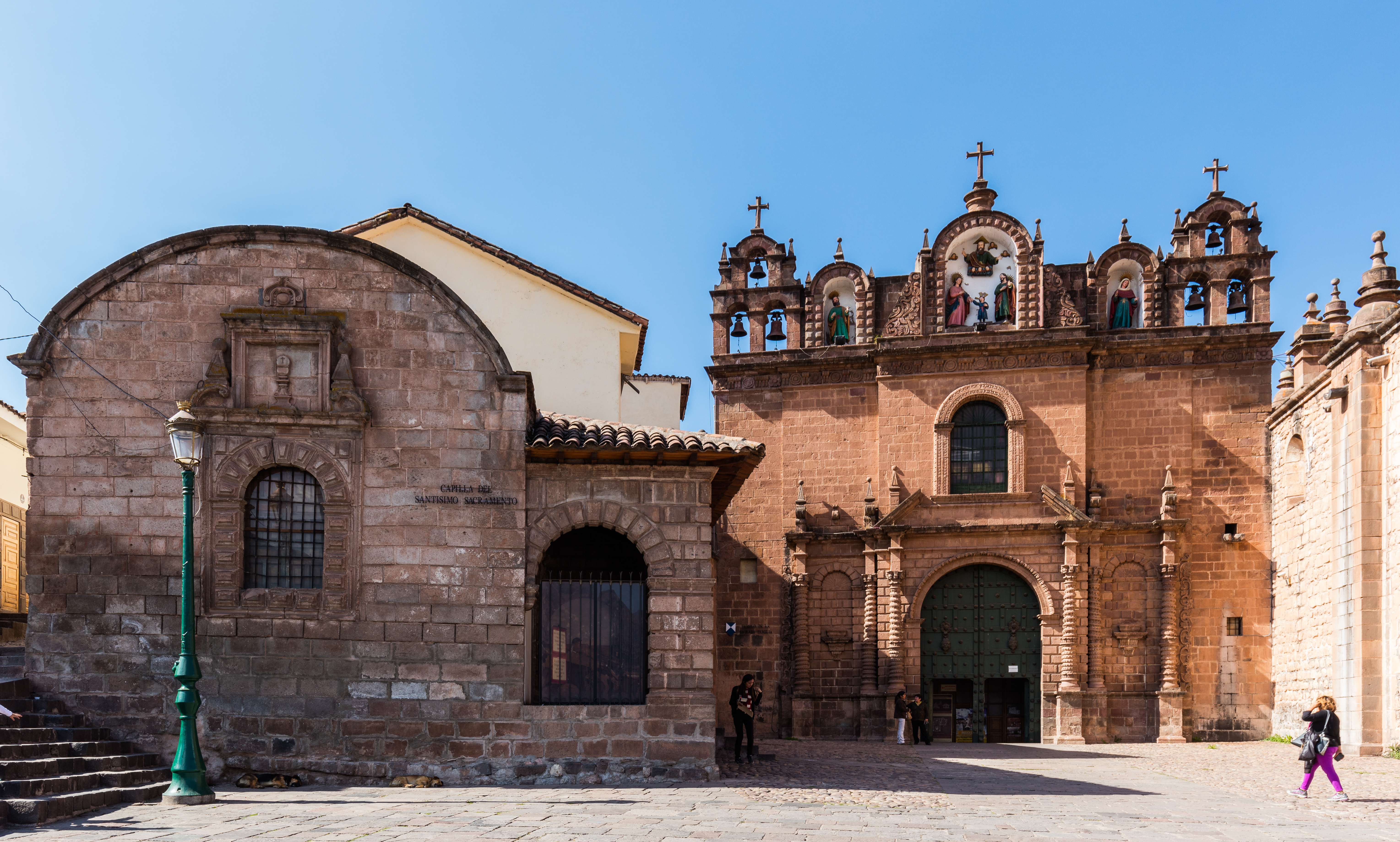 Cathedral, Plaza de Armas, Cusco, Peru